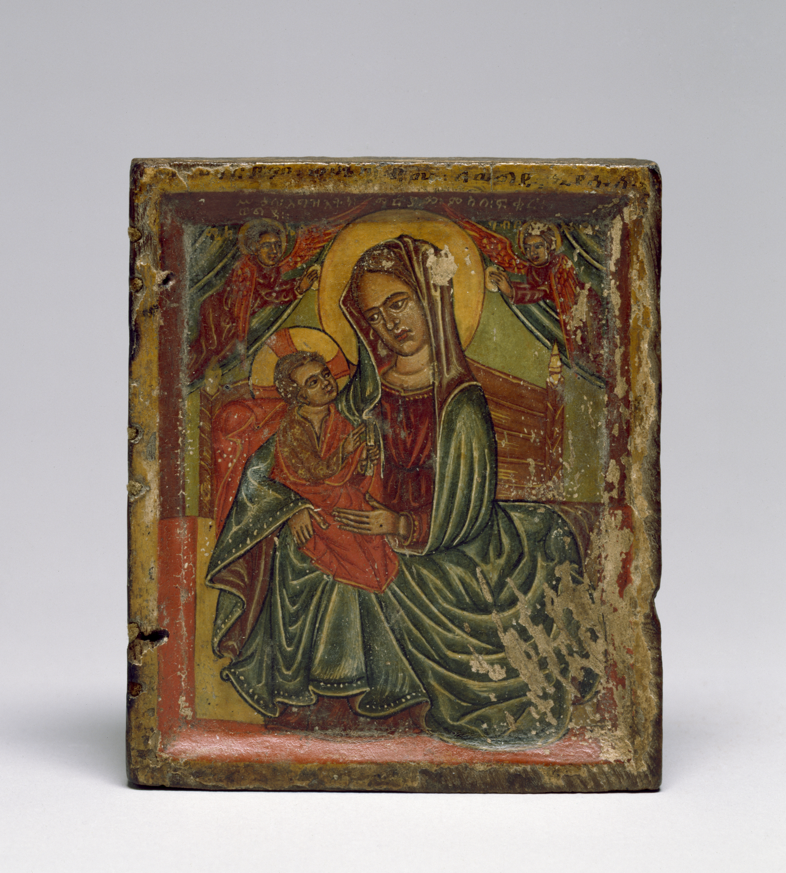 The Venetian artist Niccolò Brancaleon worked in the Ethiopian imperial court at the turn of the 16th century. Brancaleon's use of naturalistic facial features and emphasis on three-dimensional volumes reveal his Italian background. However, his use of flat bands of bright colors in the frame and background testify to his knowledge of Ethiopian artistic conventions. Like Fre Seyon, an Ethiopian painter and monk active at the end of the fifteenth century, the Italian artist developed a highly influential artistic style.